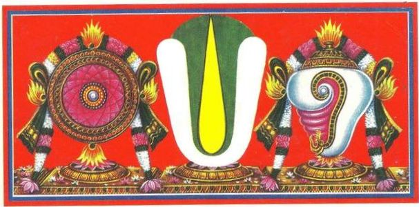 This is a sample of Vadagalai Thiruman Kappu.